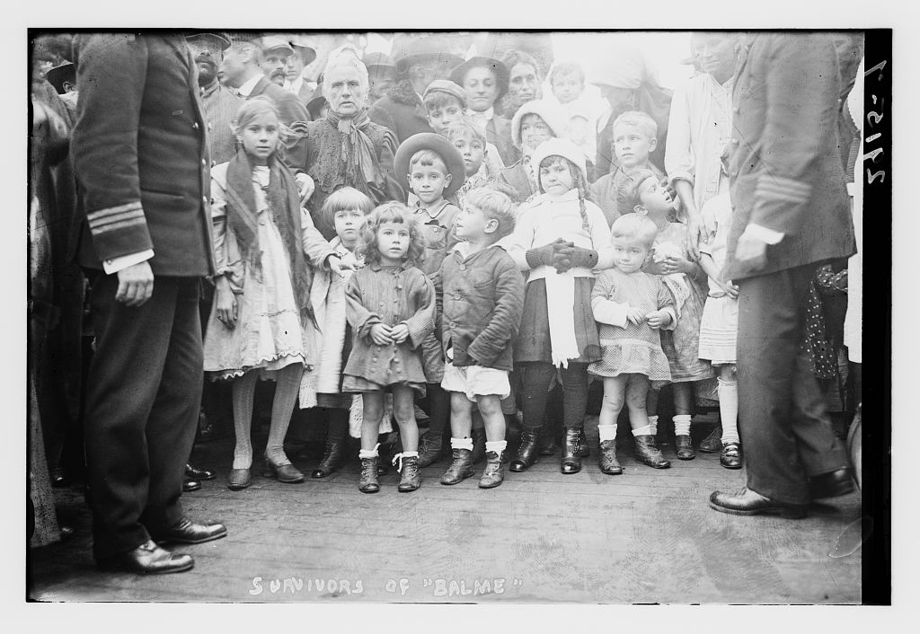 Bain News Service,, publisher. Survivors of SS Balmes [between ca. 1910 and ca. 1915] 1 negative : glass ; 5 x 7 in. or smaller. Notes: Title from unverified data provided by the Bain News Service on the negatives or caption cards. Forms part of: George Grantham Bain Collection (Library of Congress). Format: Glass negatives. Repository: Library of Congress, Prints and Photographs Division, Washington, D.C. 20540 USA, General information about the Bain Collection is available at Persistent URL: Call Number: LC-B2- 2915-7